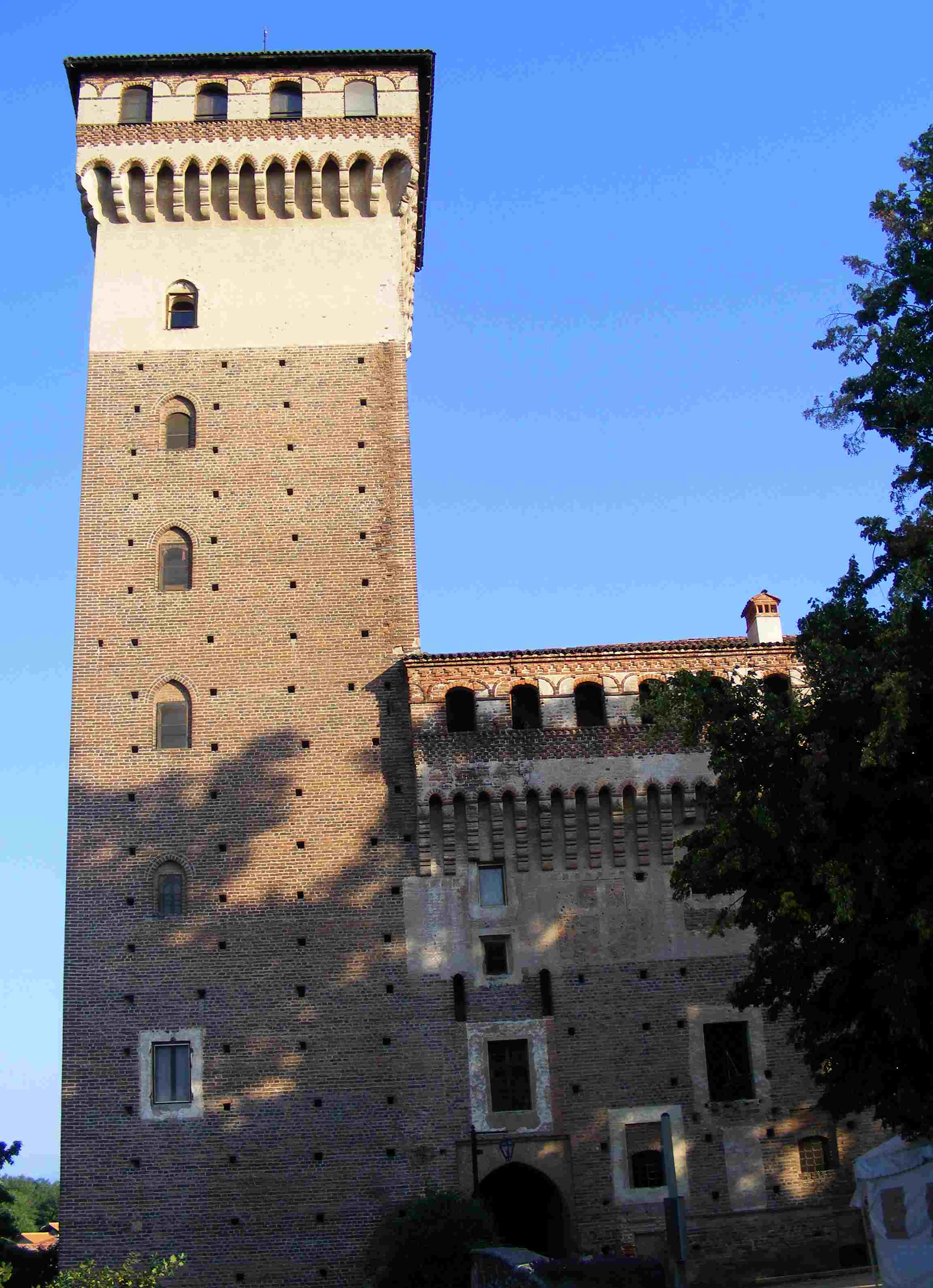 Rovasenda middle ages castle (VC, Italy)